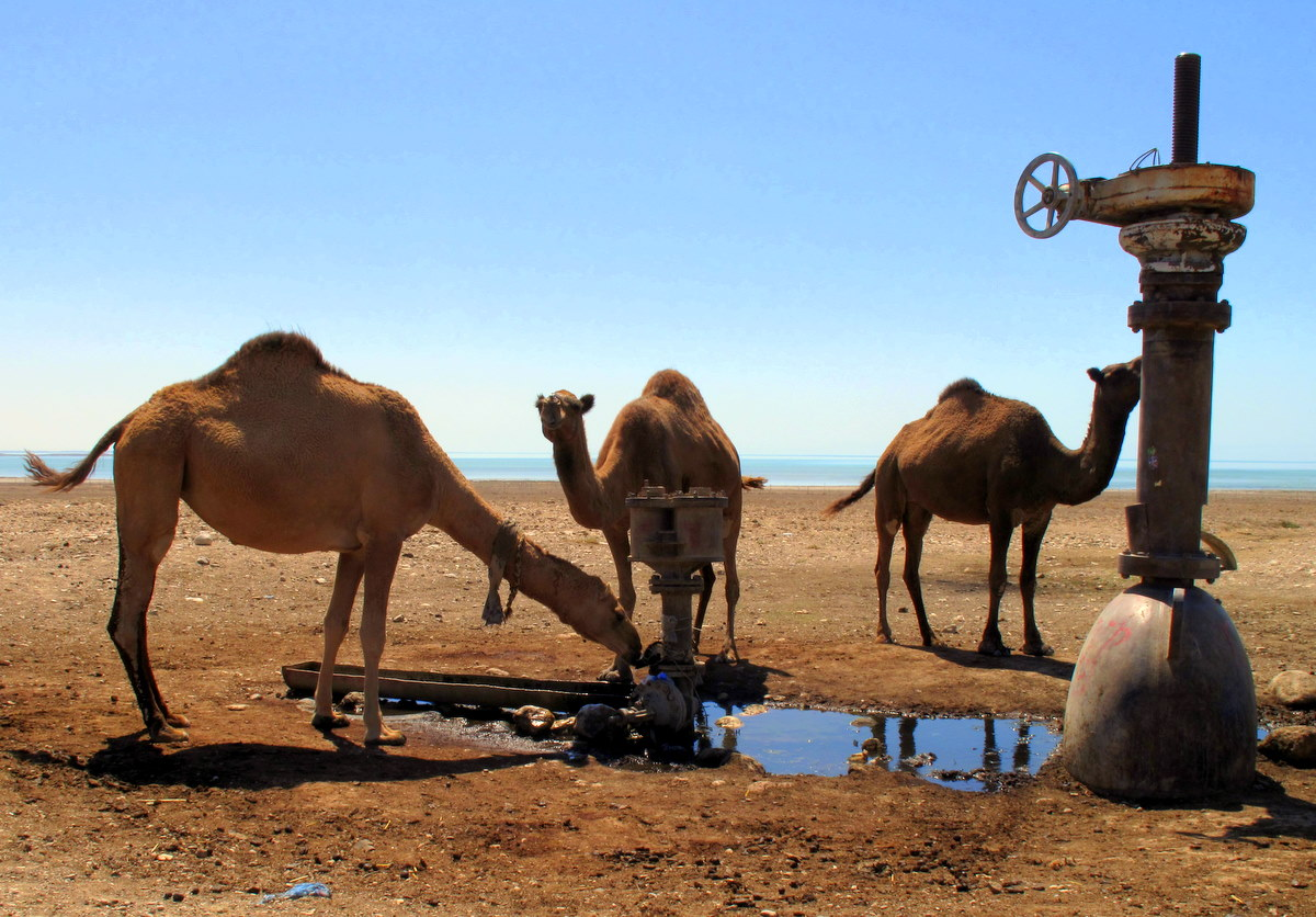 This one I had to run to the internet cafe and upload... This is a sight from the Karakum Desert on the highway from Turkmenbashi to Ashgabat. There was a camel crossing sign on the road, and behold there actually are camels just wandering around, crossing the road. Everytime there was a leak in the massive water pipe, the animals, camels mostly, would gather and drink. (Humans would also come for baths.) These ones have only one hump. Much more to come, so stay tuned. credit for photo goes to Tristan!